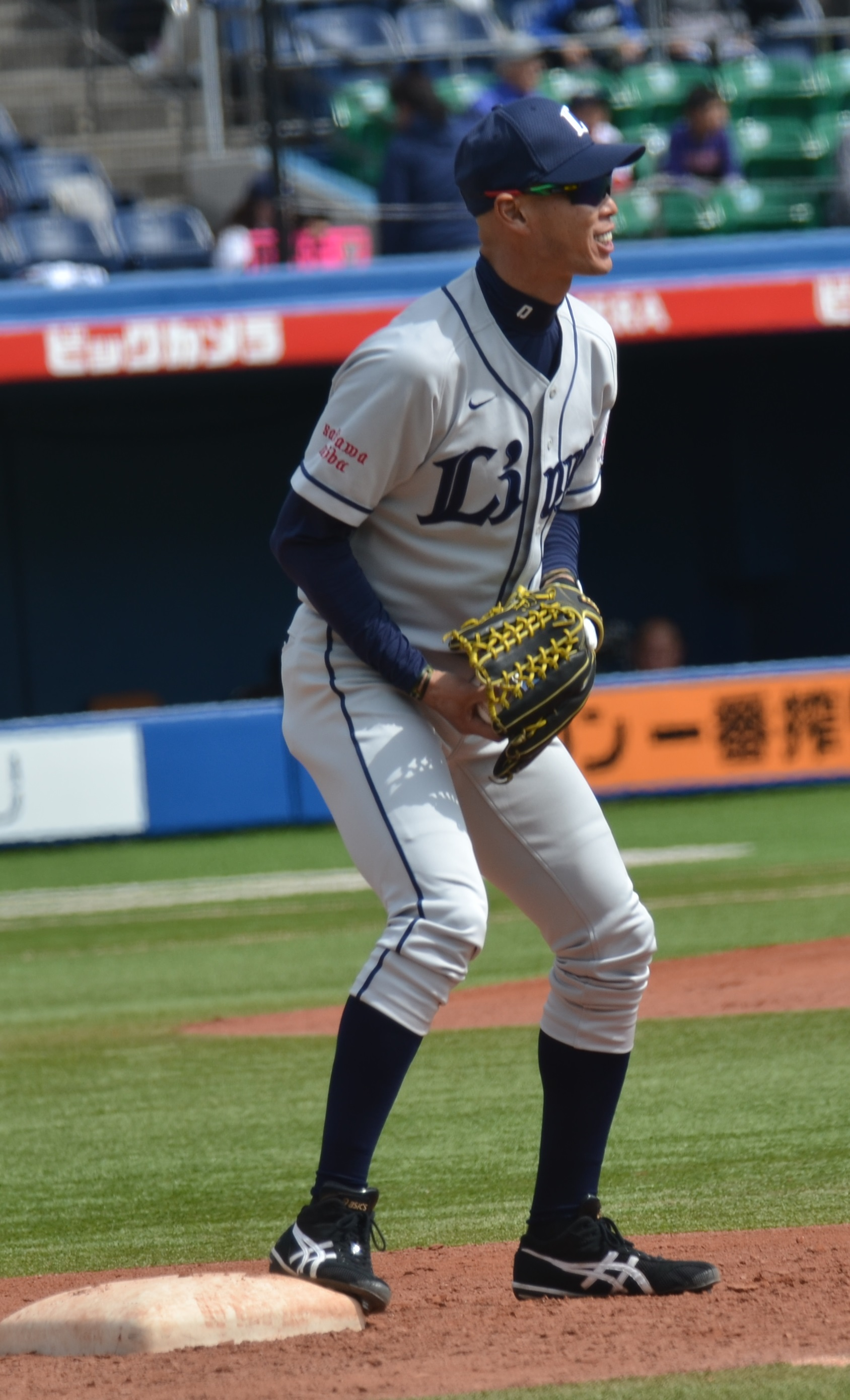 Hichori Morimoto, outfielder of the Saitama Seibu Lions, at Chiba Marine Stadium.